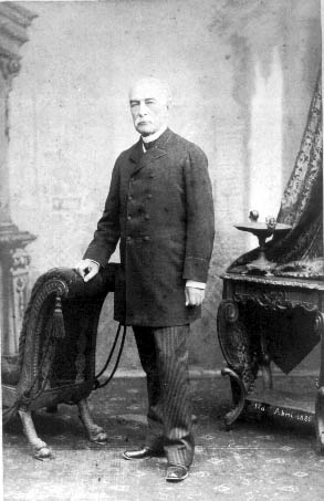 Portrait of Ernest Malinowski (1818-1899)